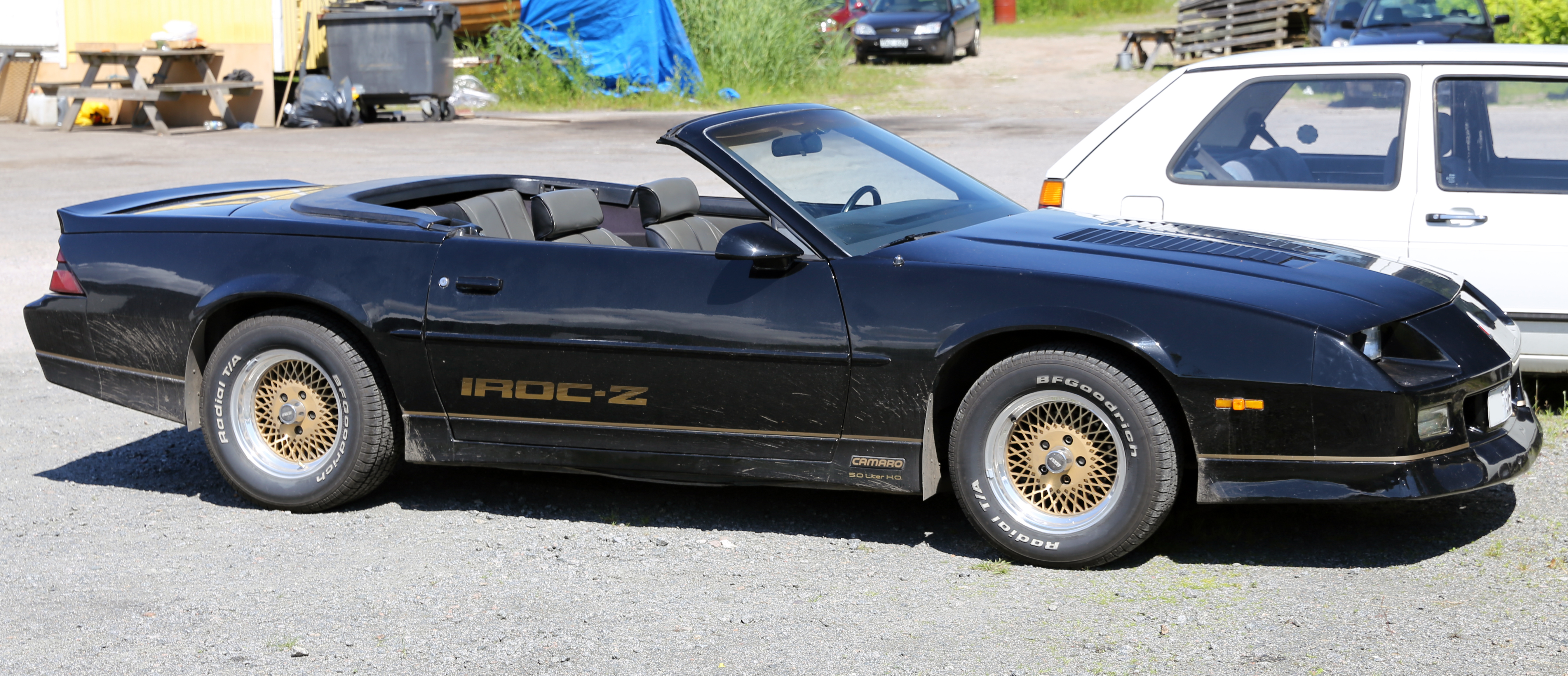 1988 Chevrolet Corvette IROC-Z Convertible, with the 305ci 170hp V8 (L03). Brought to Sweden in 1992. Engine code is GB-L03-89, serial no JL113577. 3761 of these were converted by ASC for 1988.